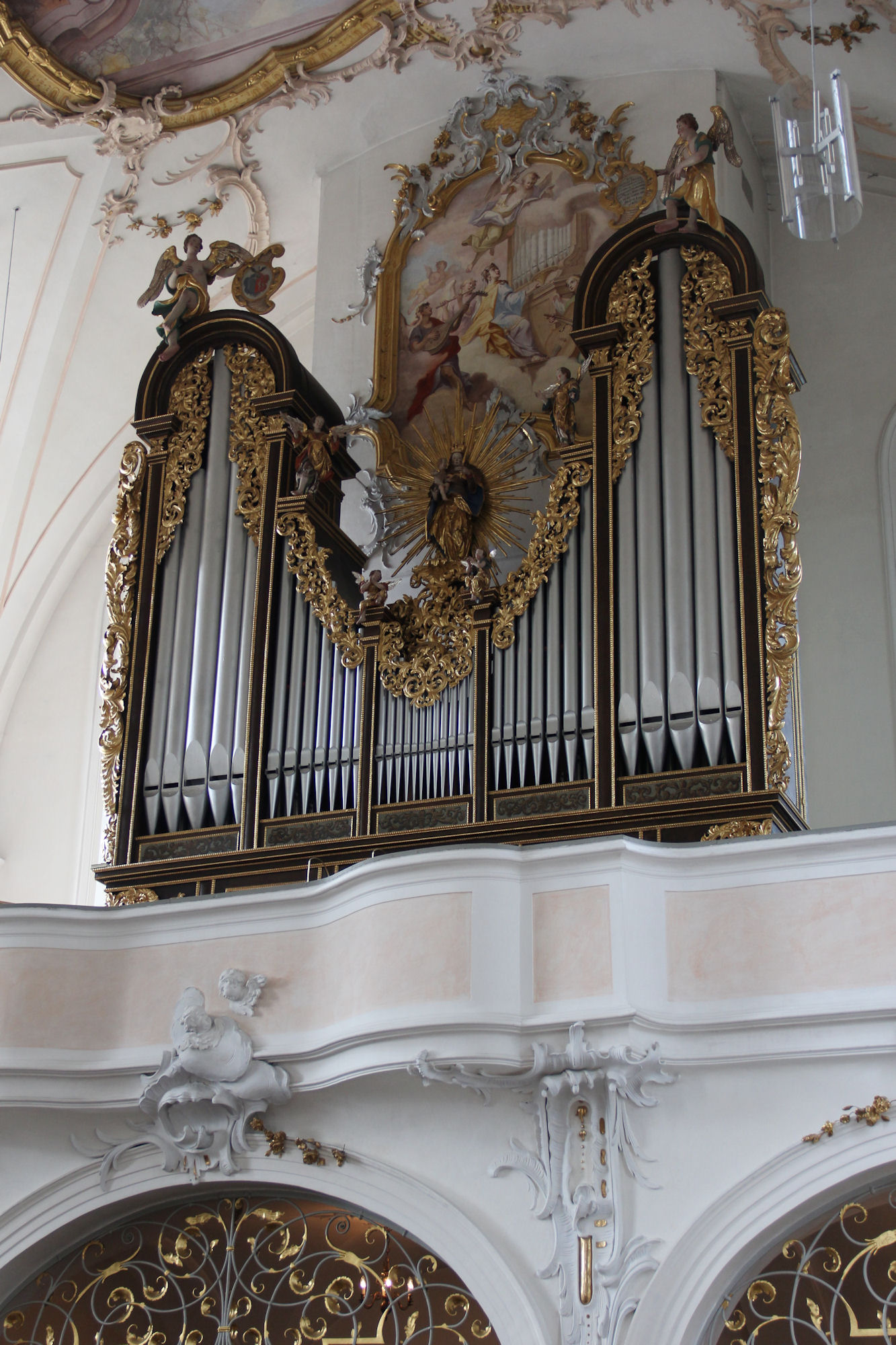 Church of St. Rasso Native nameSt. RassoLocationGrafrath, Upper Bavaria, GermanyCoordinates48° 07′ 17″ N, 11° 09′ 23″ E Authority control GND: 4398453-8